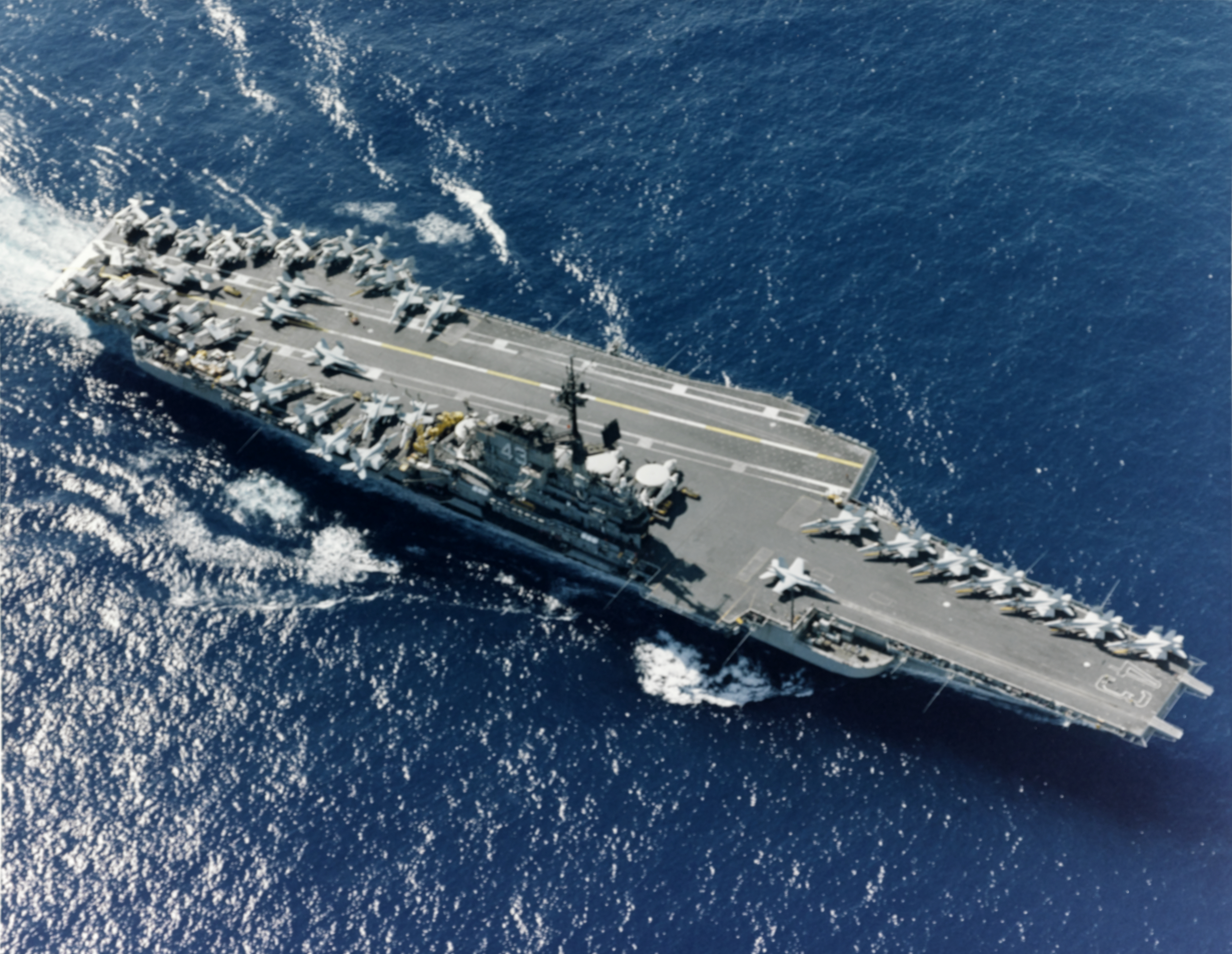 The U.S. Navy aircraft carrier USS Coral Sea (CV-43), in 1986. Coral Sea, with assigned Carrier Air Wing 13 (CVW-13), was deployed to the Mediterranean Sea from 1 October 1985 to 19 May 1986.